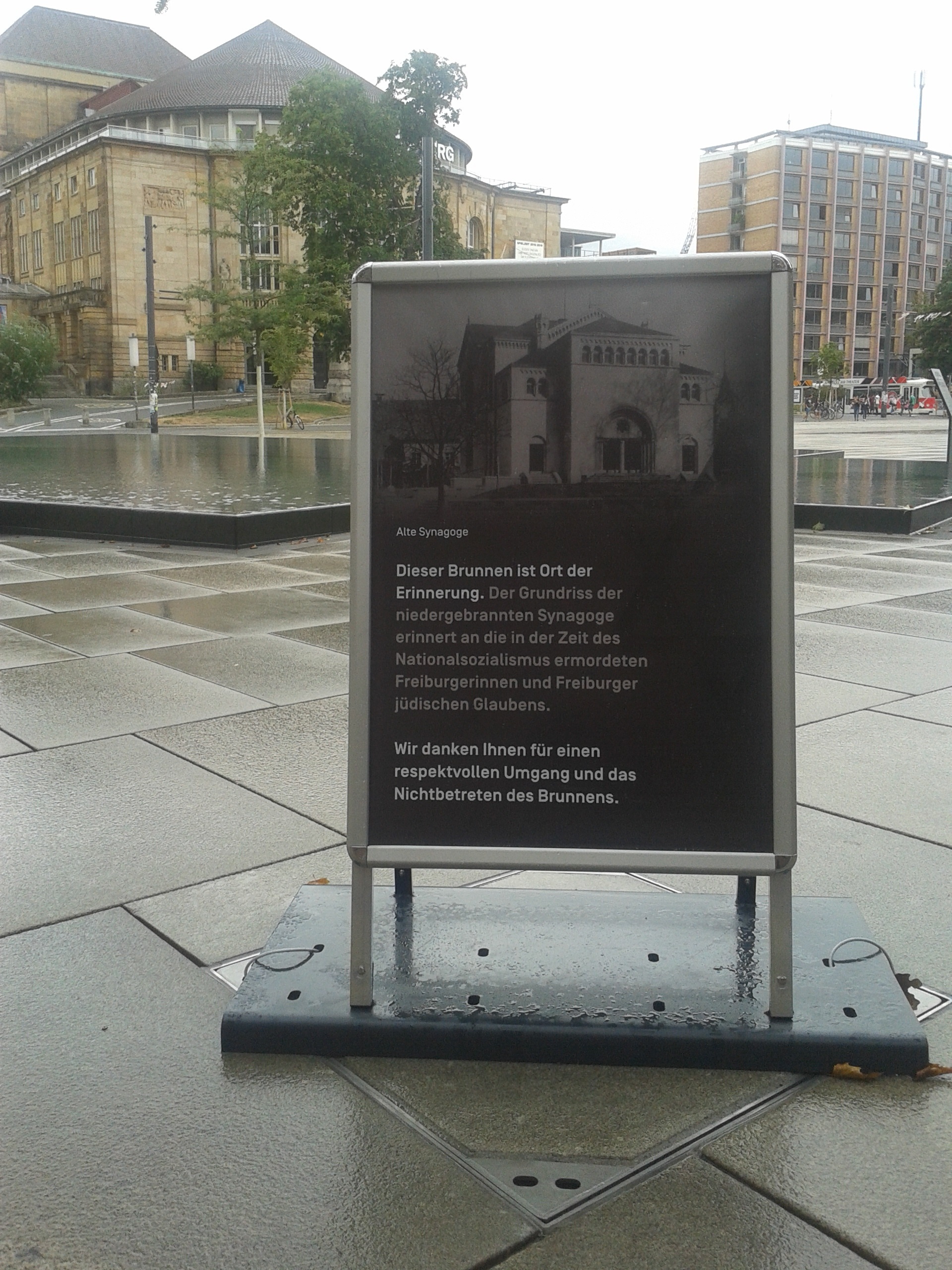 Infopanel, Place of the Old Synagogue, Freiburg